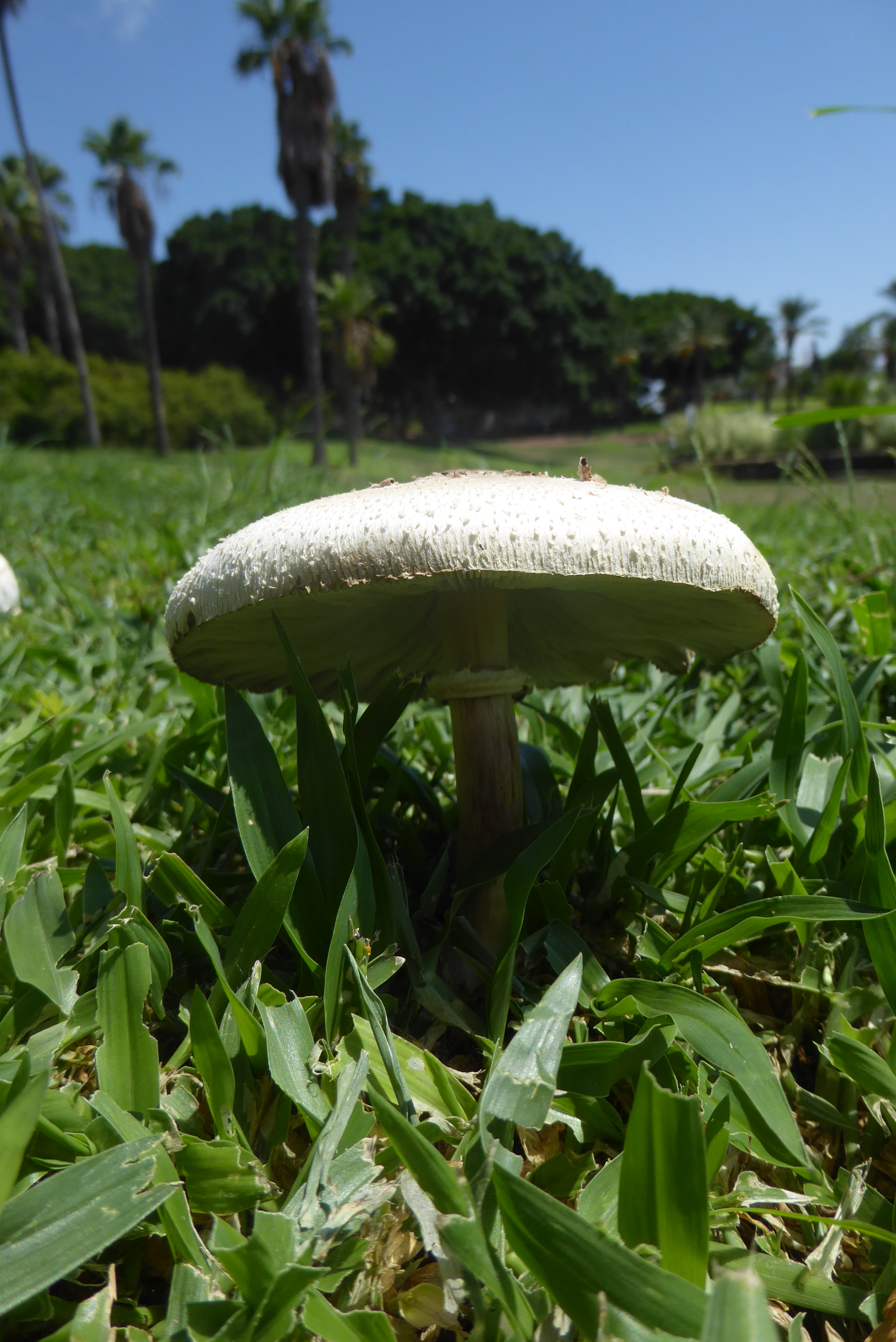 Edith Wolfson Park